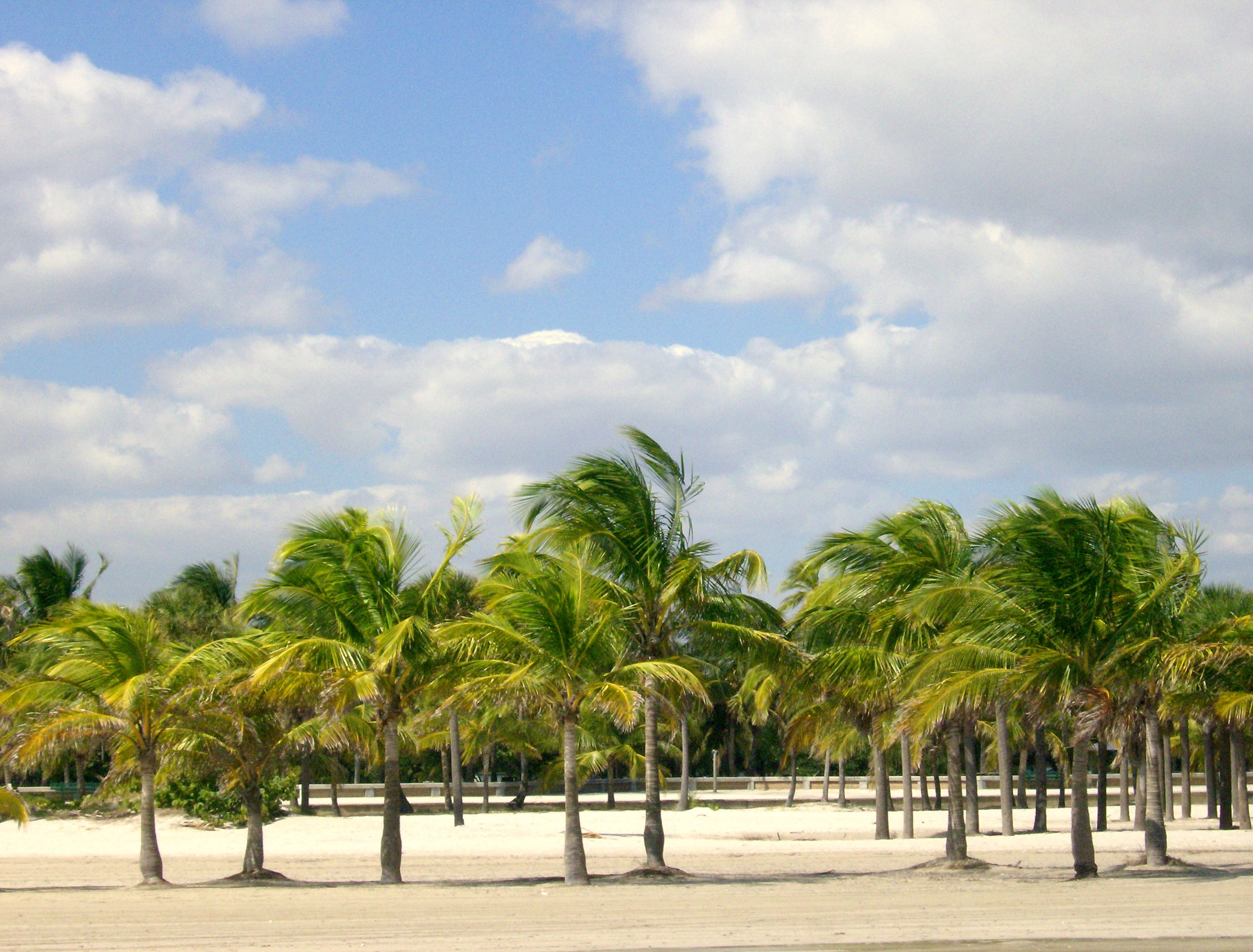 View West from the beach into Crandon Park, Miami,FL. showing many of the coconut palm trees.